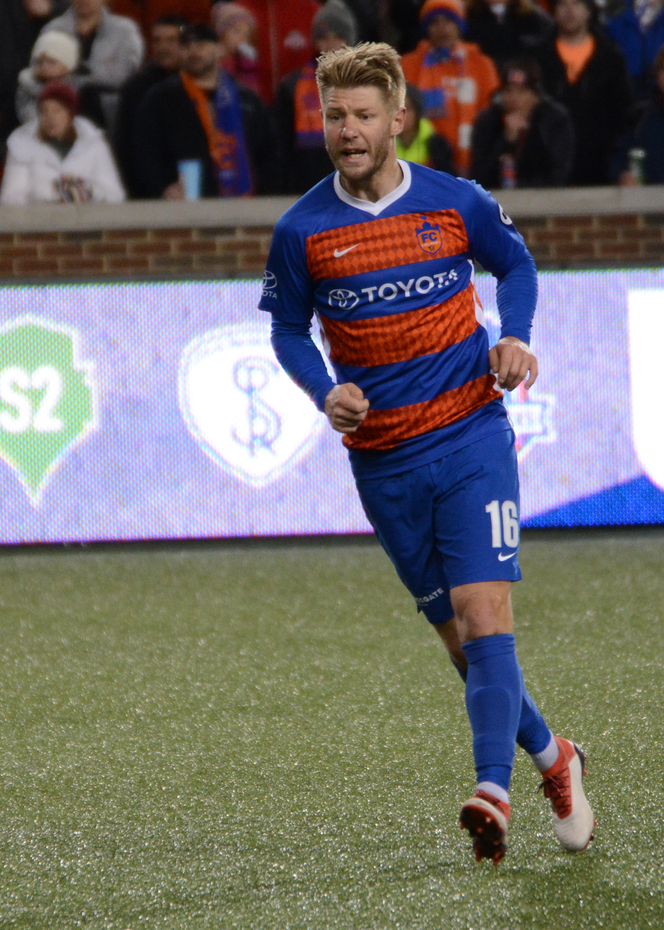 Taken during FC Cincinnati's home opener against Louisville City FC at Nippert Stadium in Cincinnati, USA on April 7, 2018.